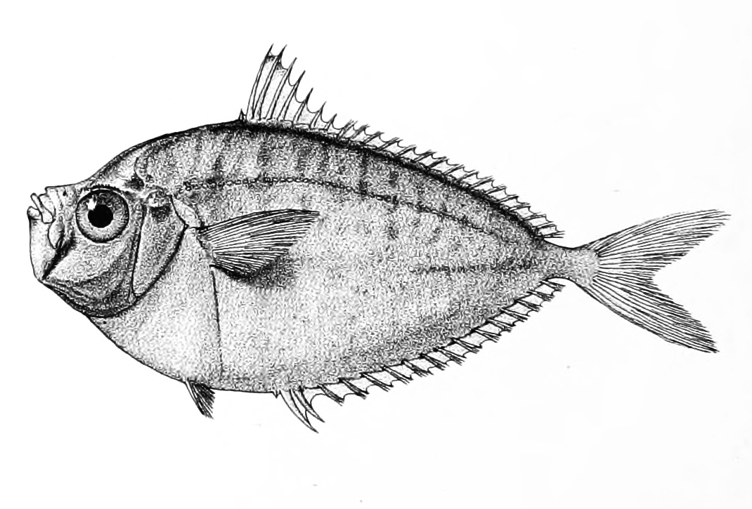 The species names / identity need verification. The original plates showed the fishes facing right and have been flipped here. Equula insidiatrix